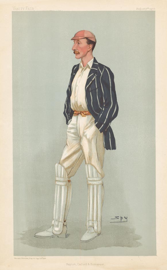 Caricature of English cricketer Lionel Palairet (1870-1933). Caption read "Repton, Oxford and Somerset".